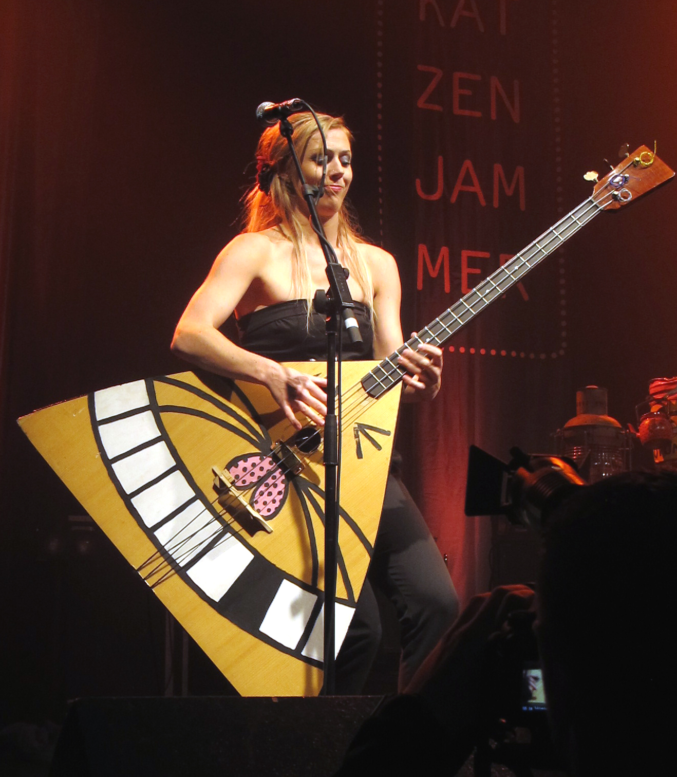 Turid Jørgensen from Katzenjammer at Rockhal, Luxembourg